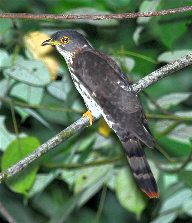 Malaysian Hawk Cuckoo Hierococcyx fugax, Bukit Timah Nature Reserve, Singapore.